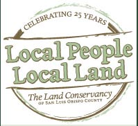 This is the logo for the Land Conservancy of SLO. LCSLO owns all of its own website images and its logo.